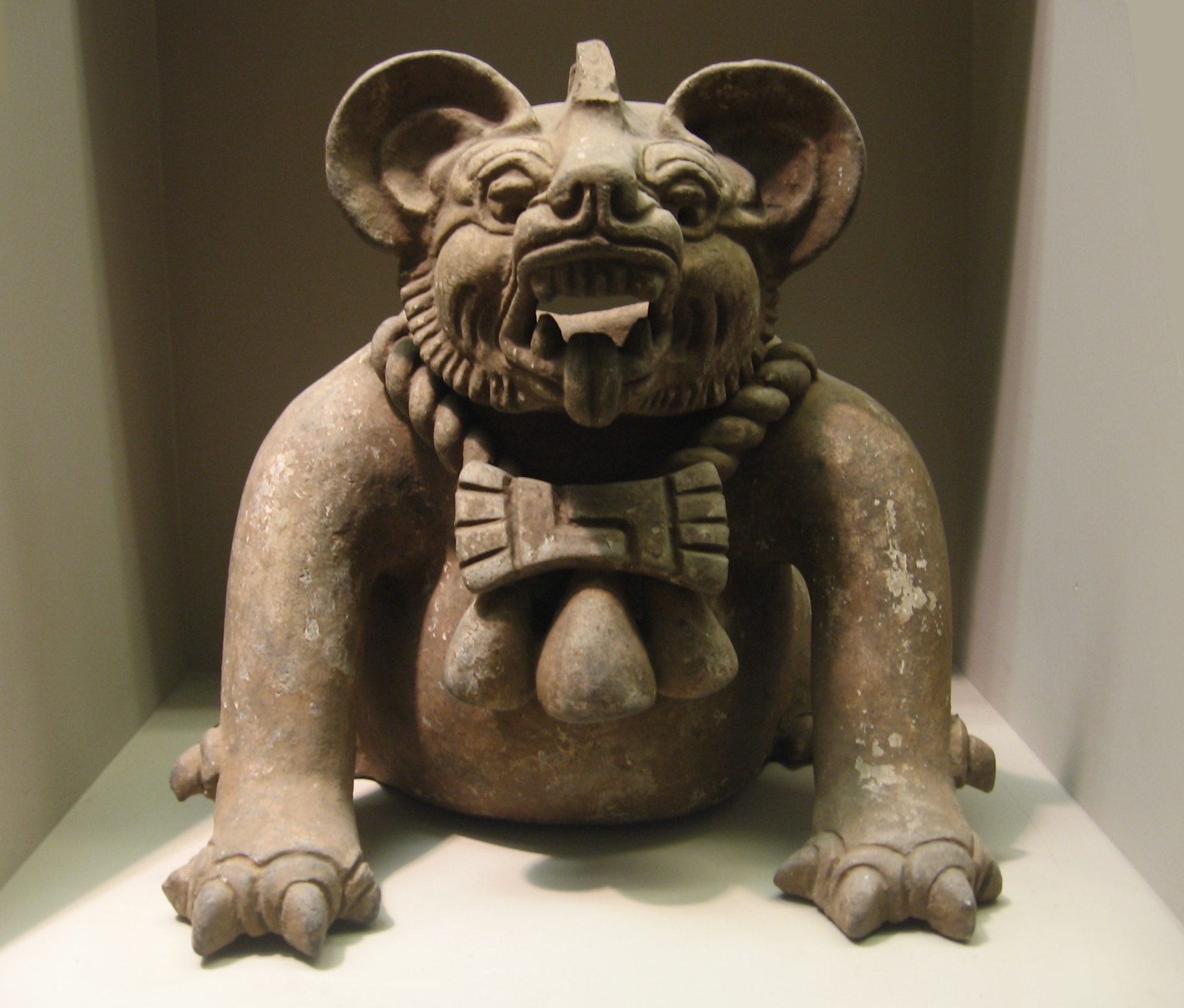 Funerary urn from Oaxaca. Estimated to originate from Period III (AD 300- 650). Although listed in the display case and on the original catalogue page as a "bat god" (even though it does not have wings), the online "virtual hall" lists this urn as a "jaguar". Compare with this clay jaguar, also from Oaxaca.